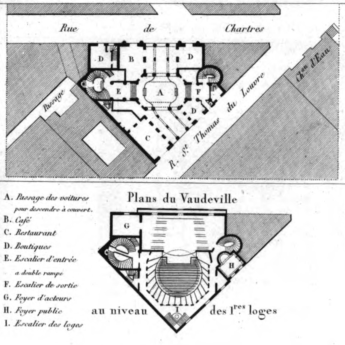 Plans of the Théâtre du Vaudeville on the rue de Chartres